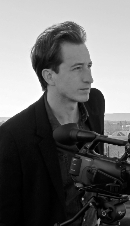 Austin on set